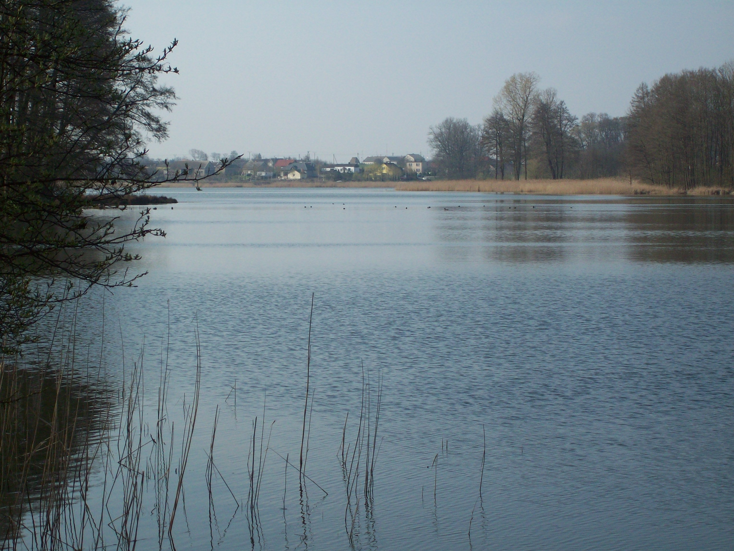 Lake Swiesz - sight in direction village Swiesz